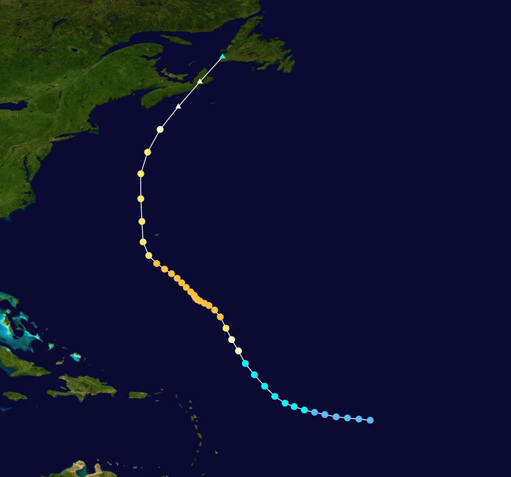 Track map of Hurricane Two of the 1926 Atlantic hurricane season. The points show the location of the storm at 6-hour intervals. The colour represents the storm's maximum sustained wind speeds as classified in the Saffir-Simpson Hurricane Scale (see below), and the shape of the data points represent the nature of the storm, according to the legend below. Saffir–Simpson scale Tropical depression≤38 mph≤62 km/h Category 3111–129 mph178–208 km/h Tropical storm39–73 mph63–118 km/h Category 4130–156 mph209–251 km/h Category 174–95 mph119–153 km/h Category 5≥157 mph≥252 km/h Category 296–110 mph154–177 km/h Unknown Storm type Tropical cyclone Subtropical cyclone Extratropical cyclone / Remnant low / Tropical disturbance / Monsoon depression